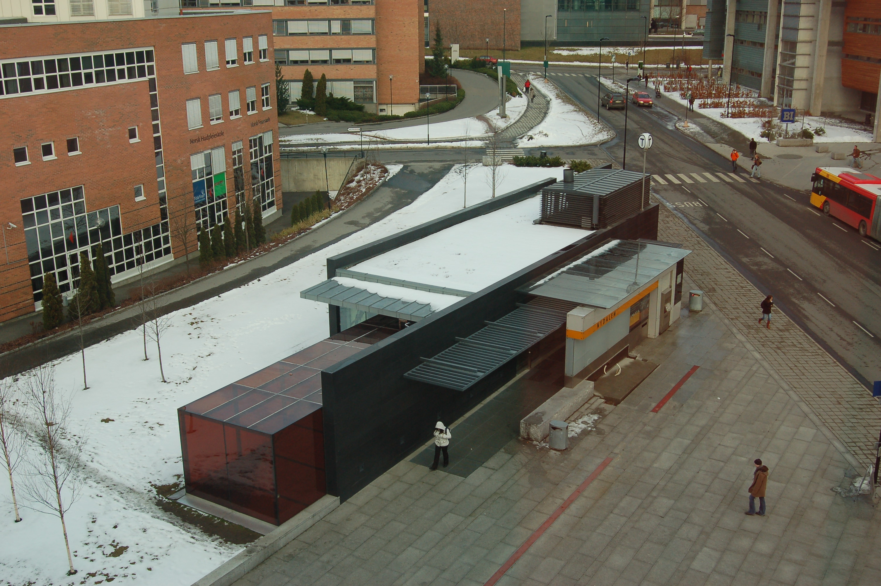 Nydalen rapid transit station on the Oslo T-bane, Norway